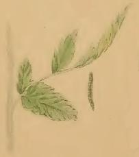 Stainton’s Natural History of the Tineina (1855–1873): Agonopterix heracliana a leaf tip of Anthriscus sylvestris folded by larva